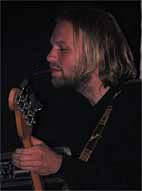 Mathias Eick; Jam at «Hallen» in Eidsfoss, Norway 15 September 2002. ©Hofposten, Norway. Uploaded with permission by photographer Robert E. Haraldsen.